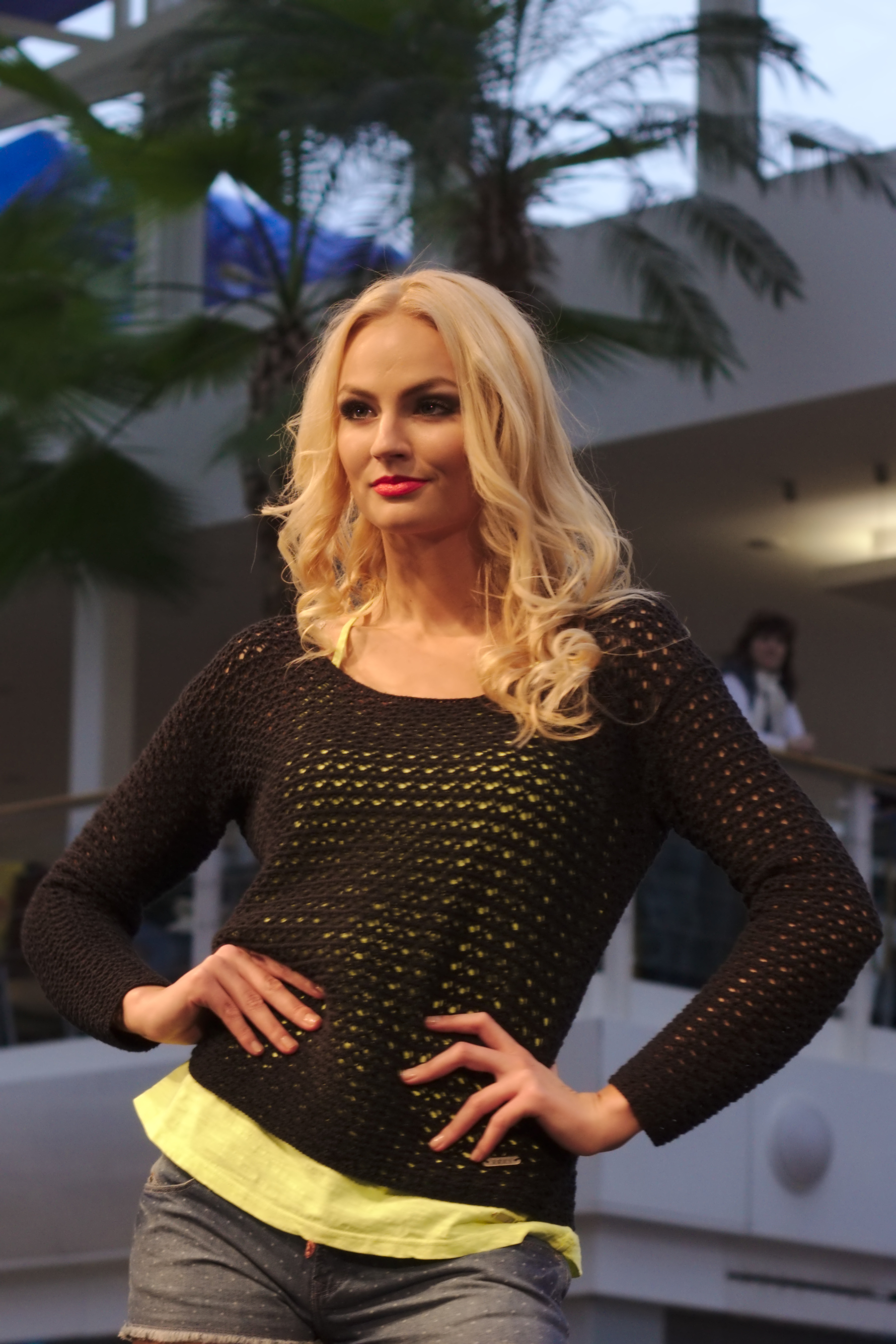 Tereza Fajksová at Olympia Fashion Show 2013, Brno